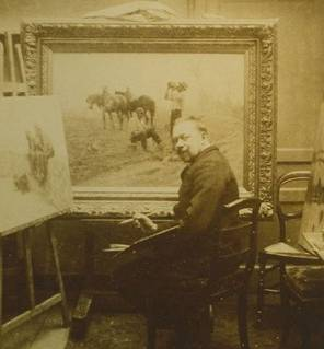 The painter Georges Maroniez (1865-1933) in his studio - detail